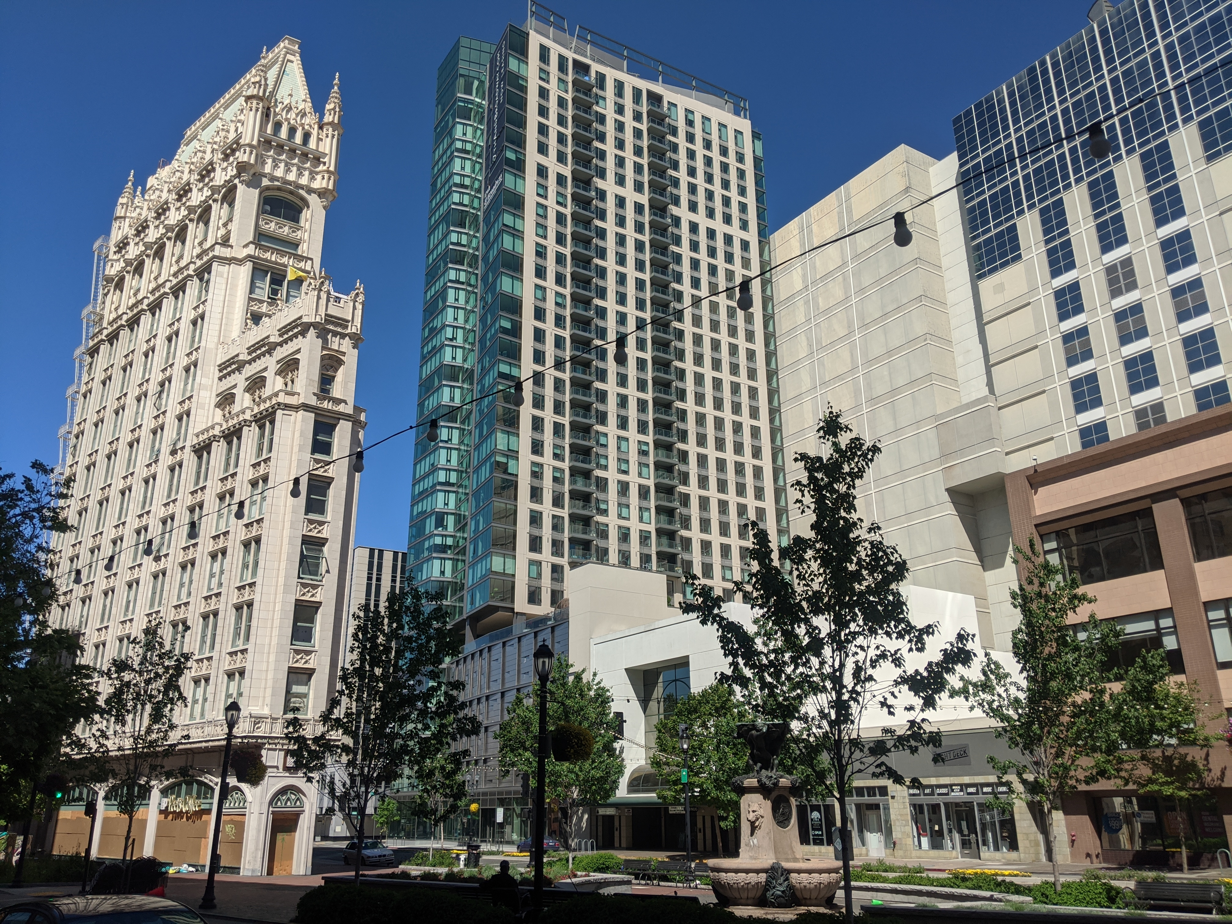 LA